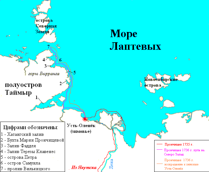 This is way of Pronchishev expedition in Apctic (Laptev sea)took place in 1735-1736 years.